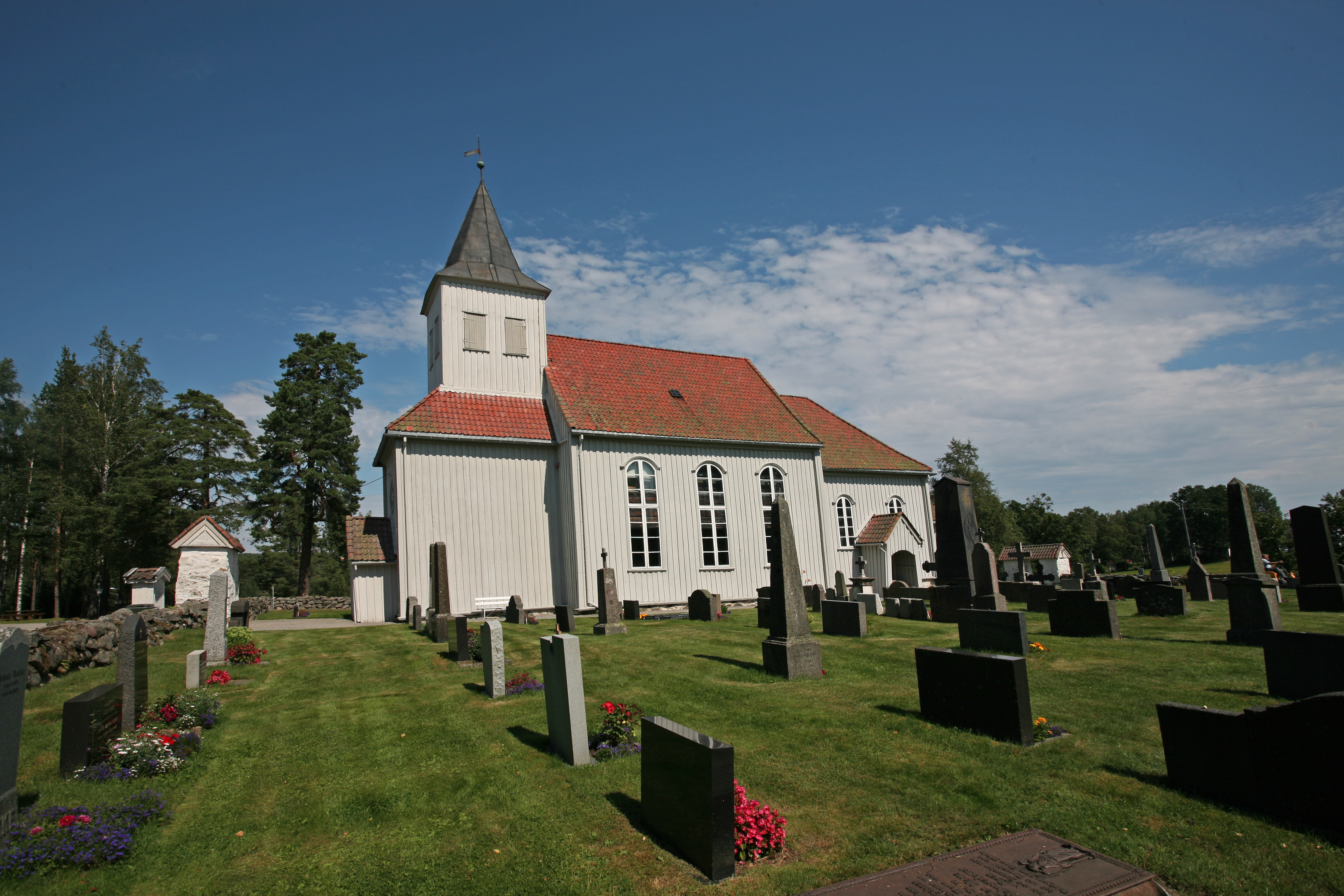 Picture of Prestebakke Church (Østfold - Norway)